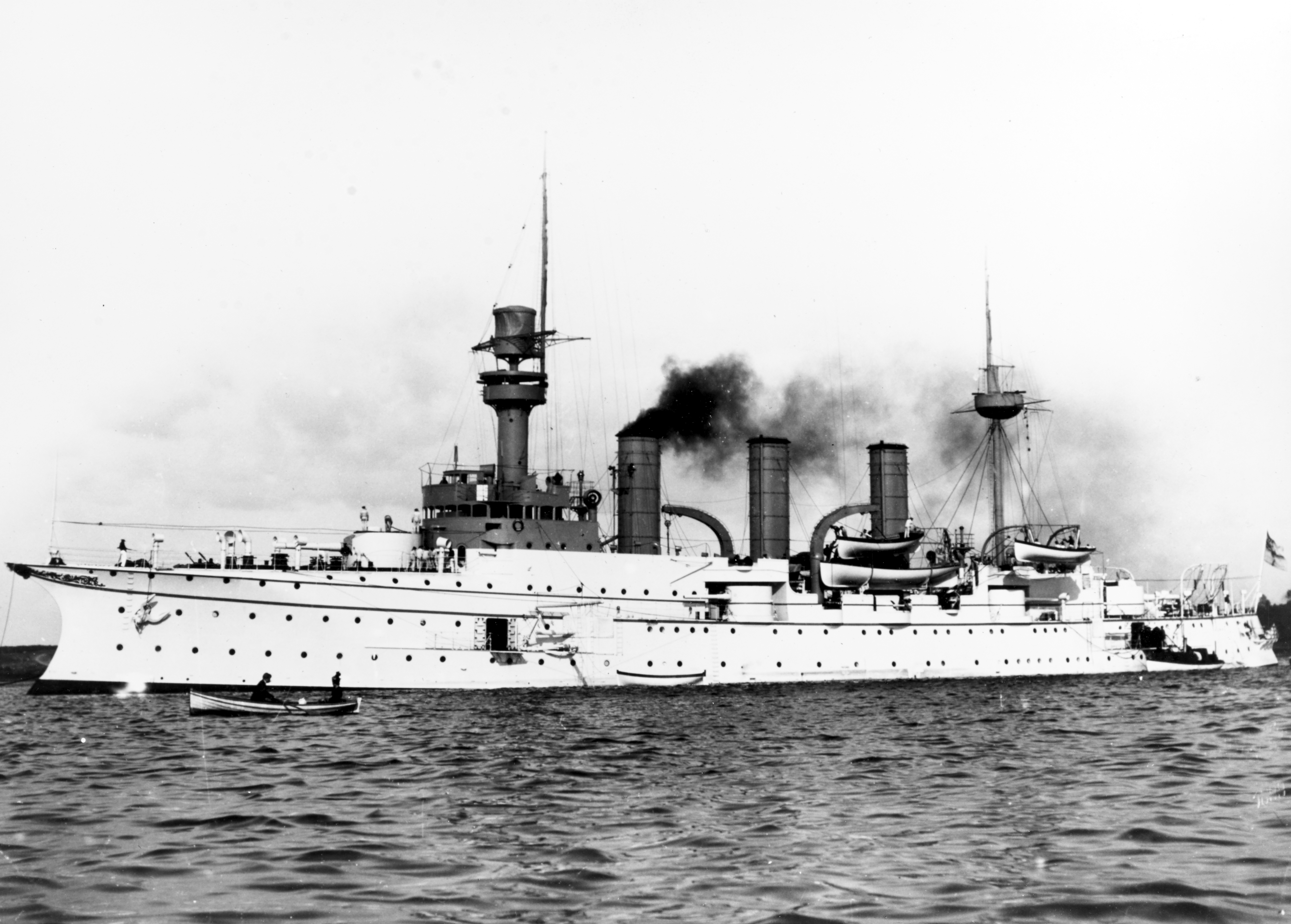 Title: HANSA (German cruiser, 1898-1919) Caption: Photographed by A. Renard, Kiel, 1899, prior to refit of 1907-1909.